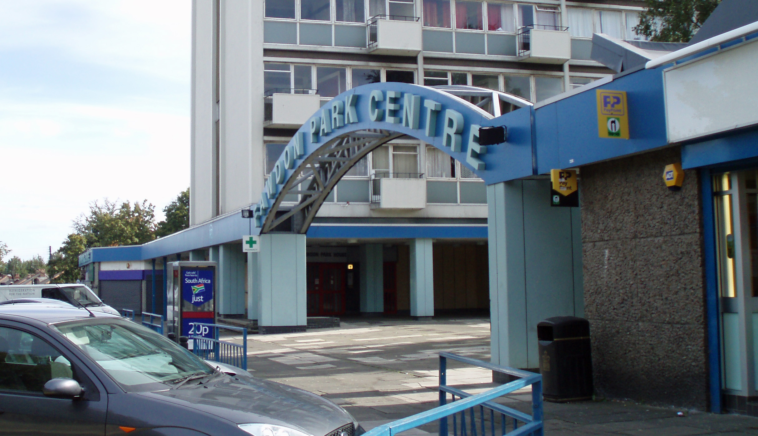 This is an image of part of the Fawdon Park shopping centre, Newcastle upon Tyne, England